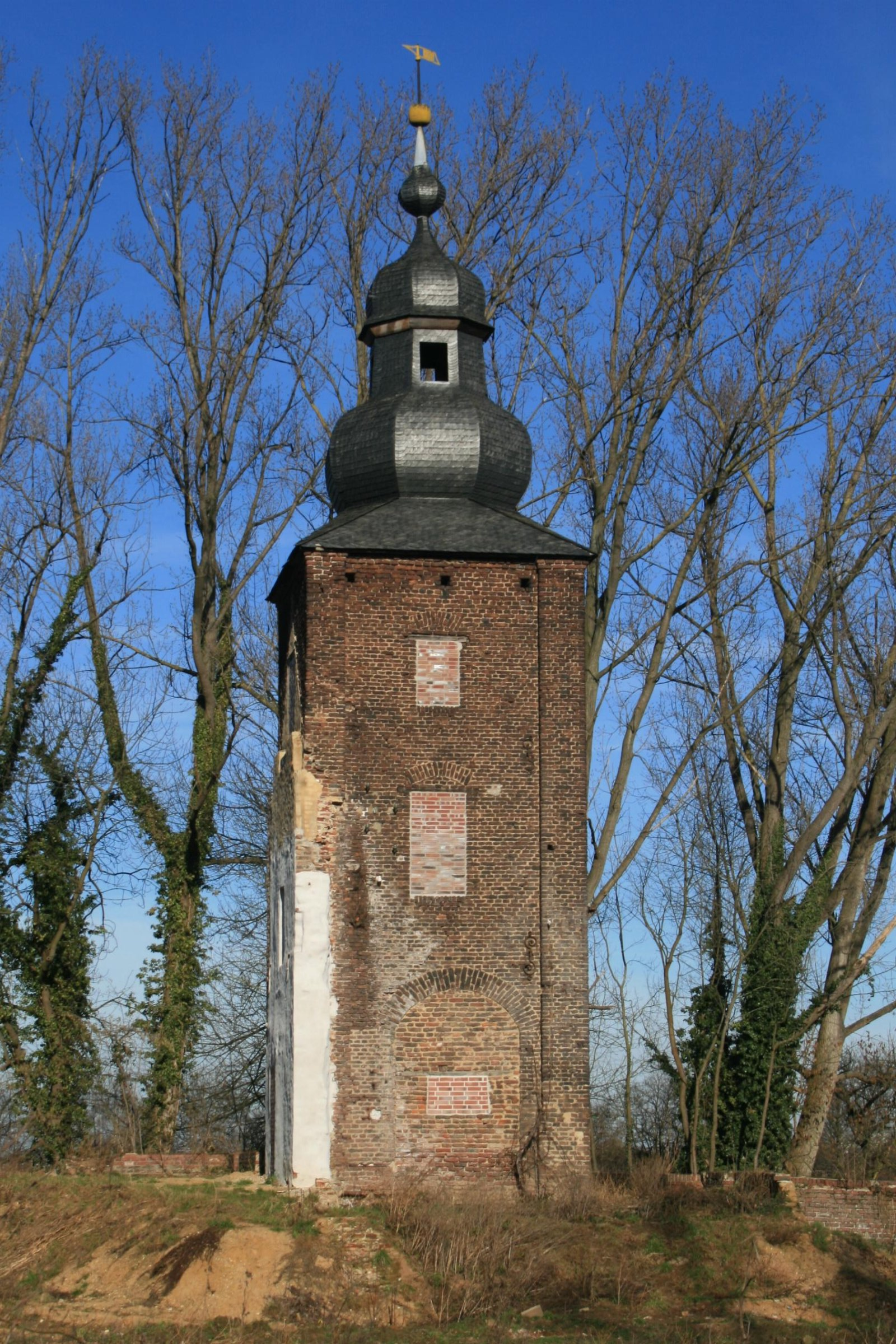 Cultural heritage monument No. 71 in Jülich